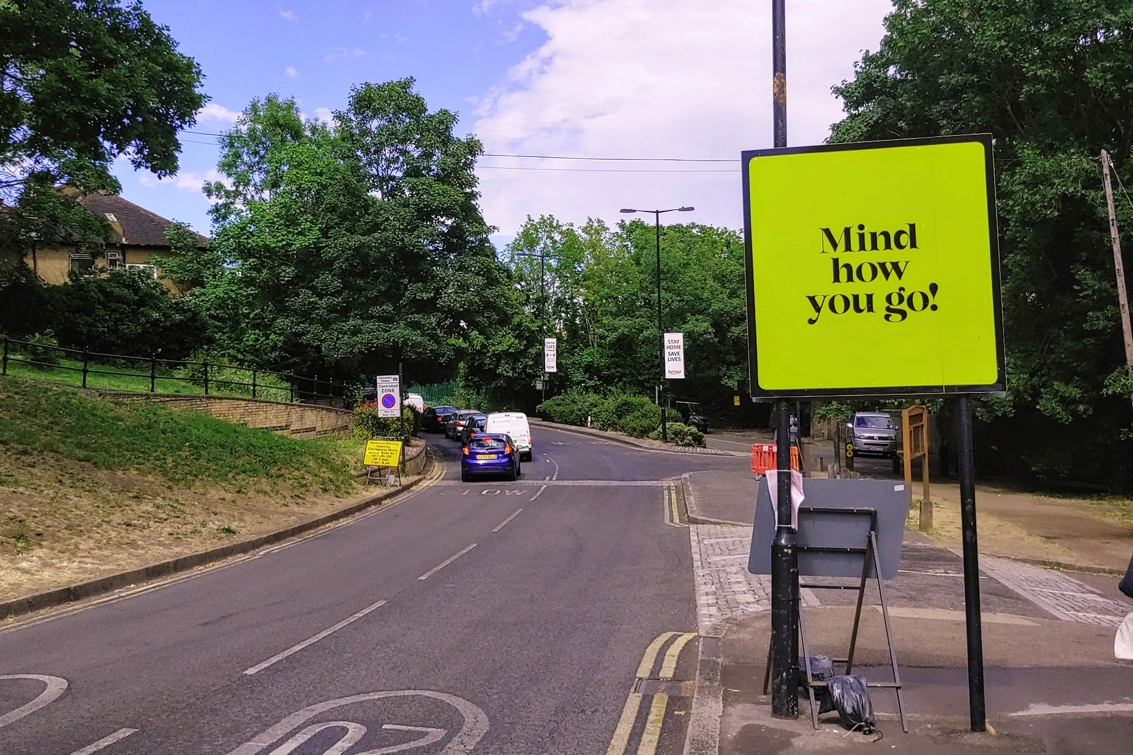 A sign at Alexandra Palace telling drivers to "Mind how you go!"